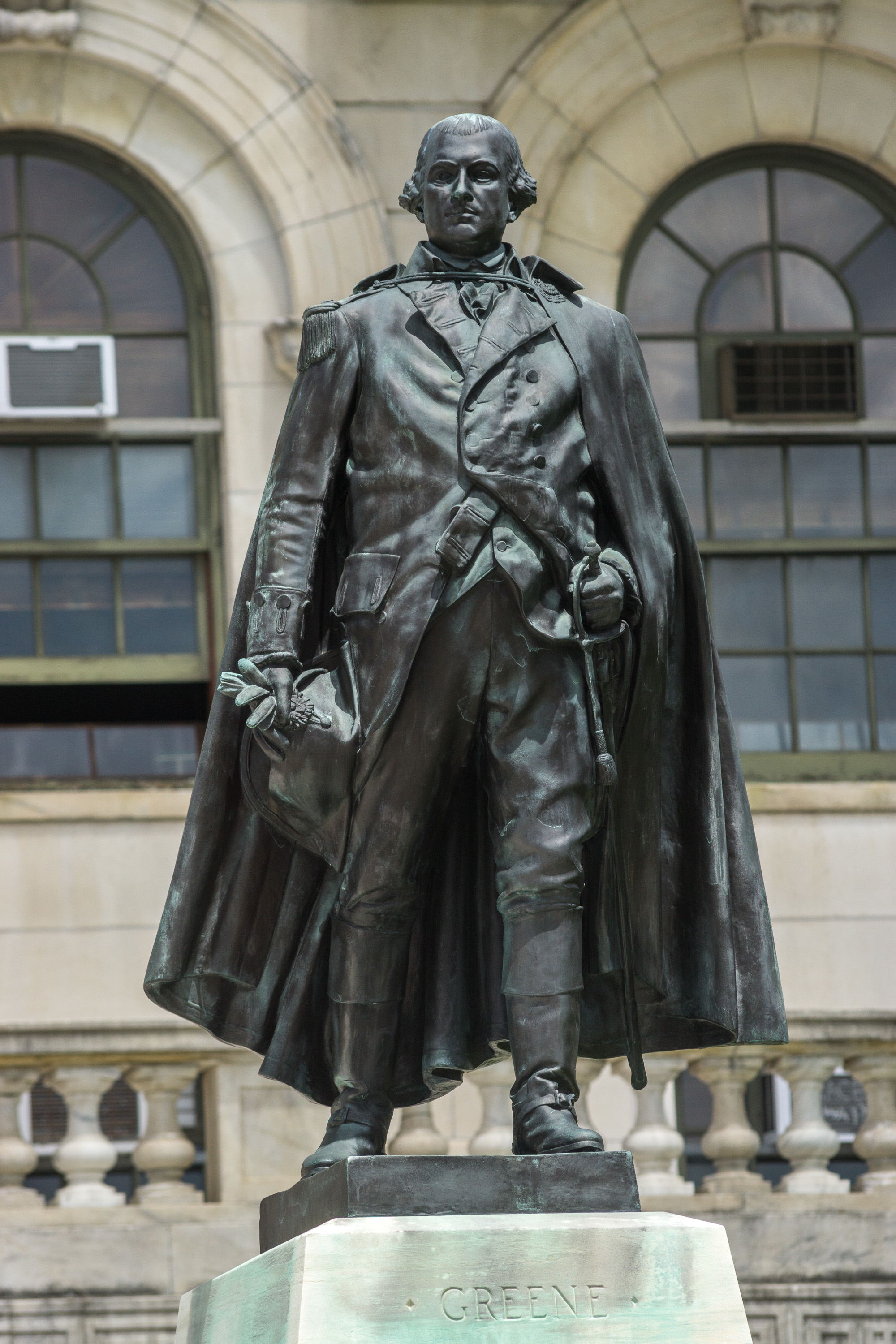 Major General Nathanael Greene statue at the South entrance to the Rhode Island Statue House, in Providence. Dedicated in 1931, the statue was created by Henri Schönhardt.